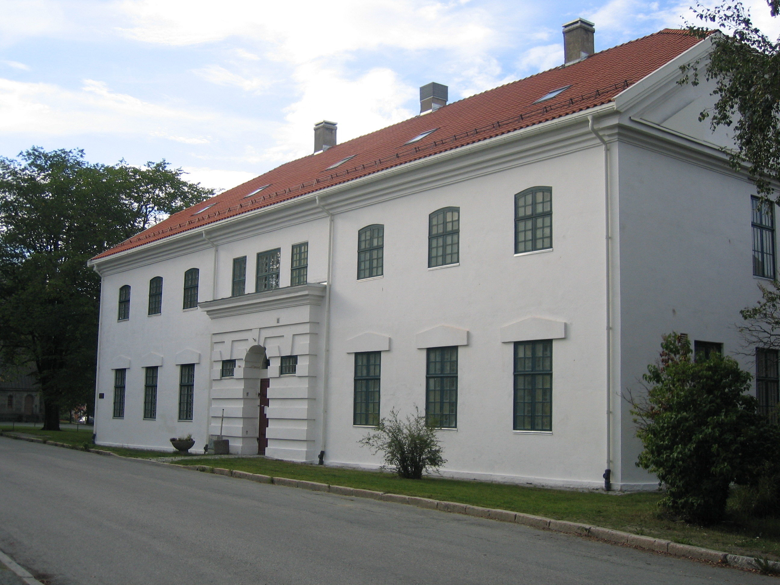 The National Museum of Justice Norway, located in Trondheim.